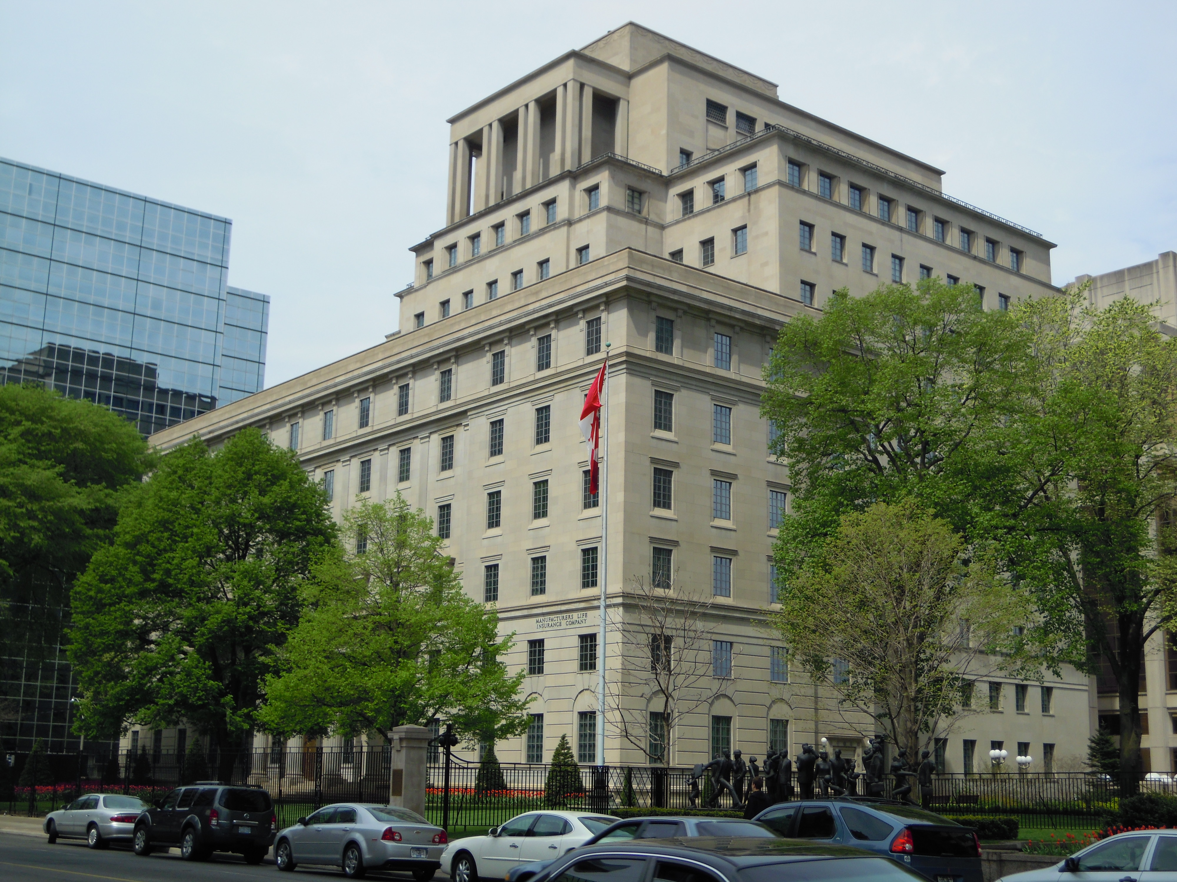 Head office of Manulife on Bloor Street East in Toronto. Constructed in 1926, a large addition was built in 1953.